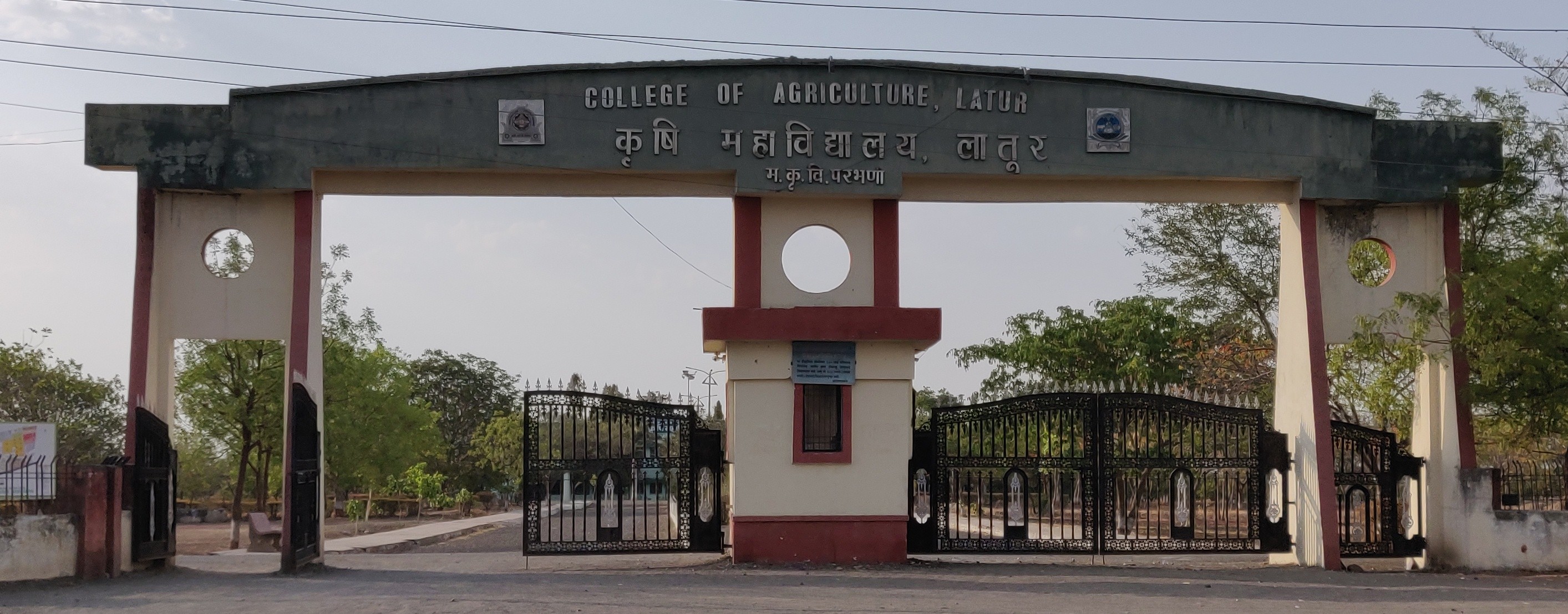 Entrance of College of Agriculture, Latur, India.